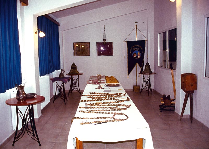 Internal view, image from the Folklore Museum, Panagitsa, Central Macedonia, Greece